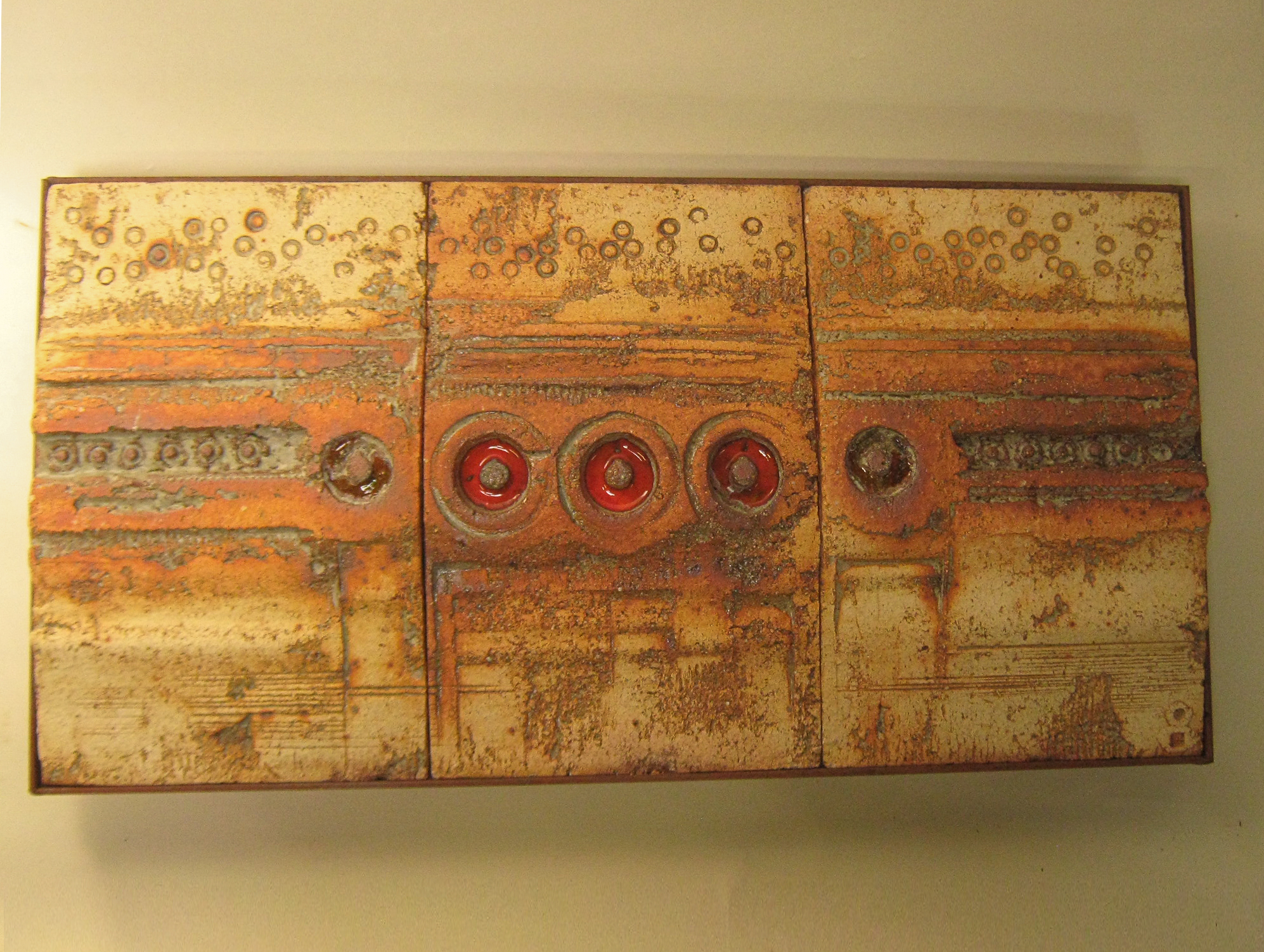 Wall plaque with red glass by Ian Sprague 1970s; photographed in a private collection at Enfield Victoria